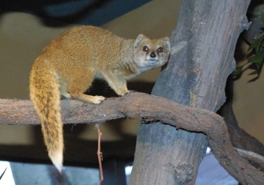 Yellow mongoose in run.